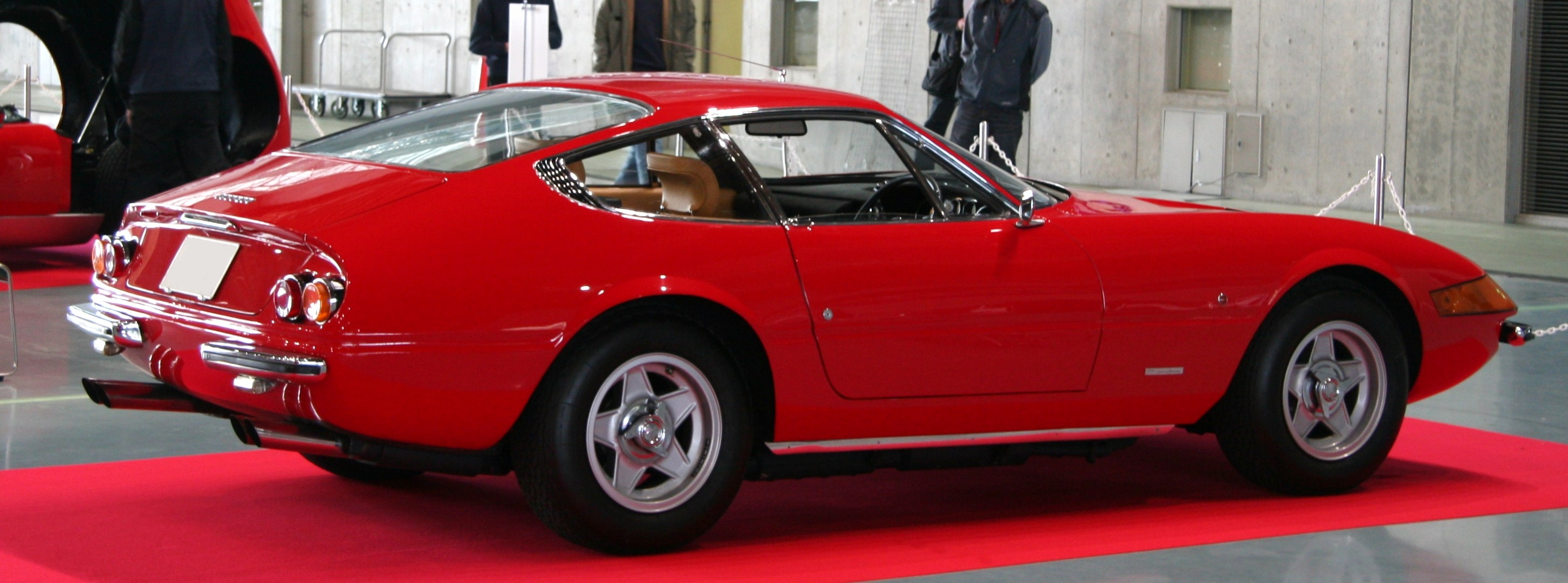 Ferrari Daytona